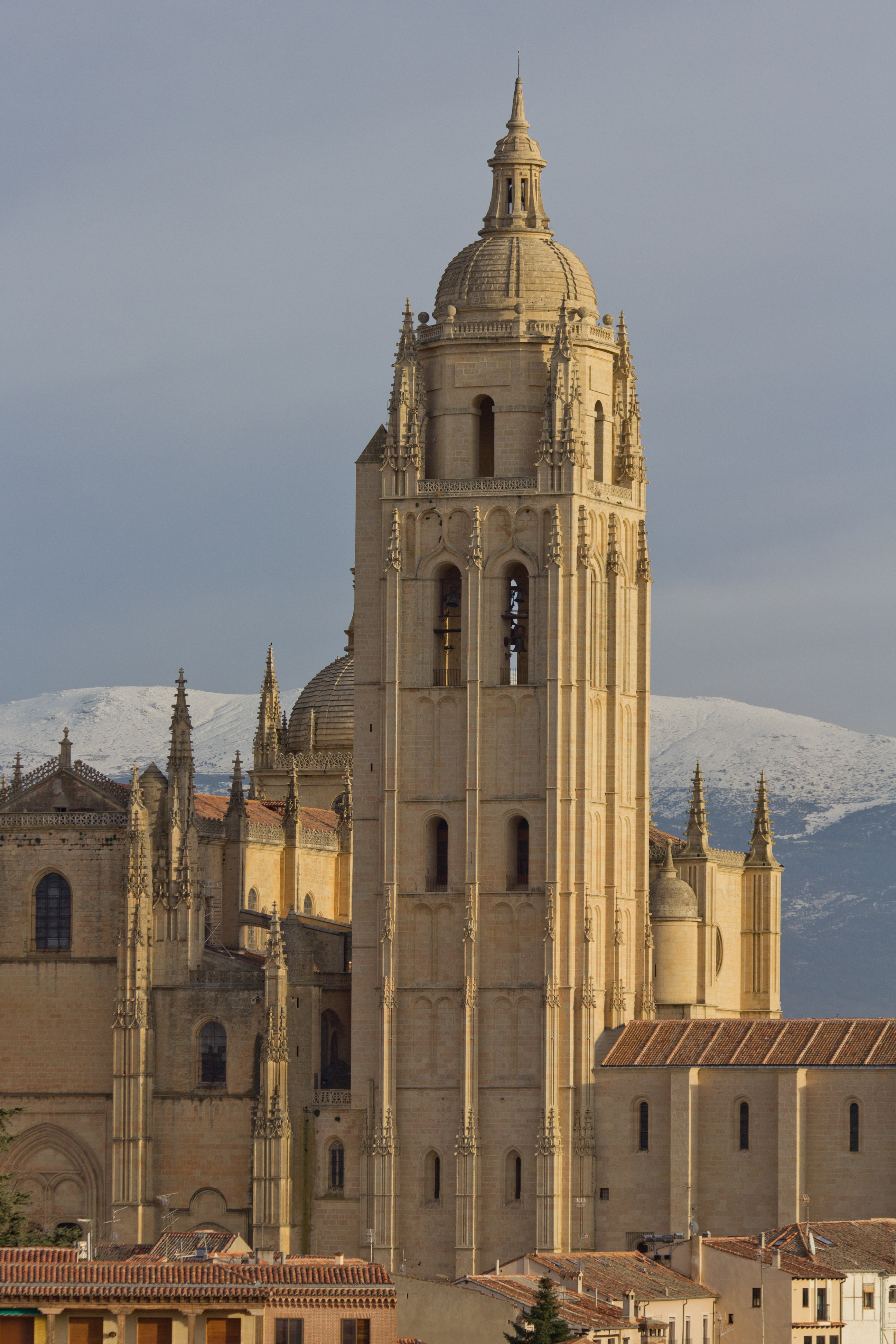 cathedral of St. Mary, Segovia, Spain.